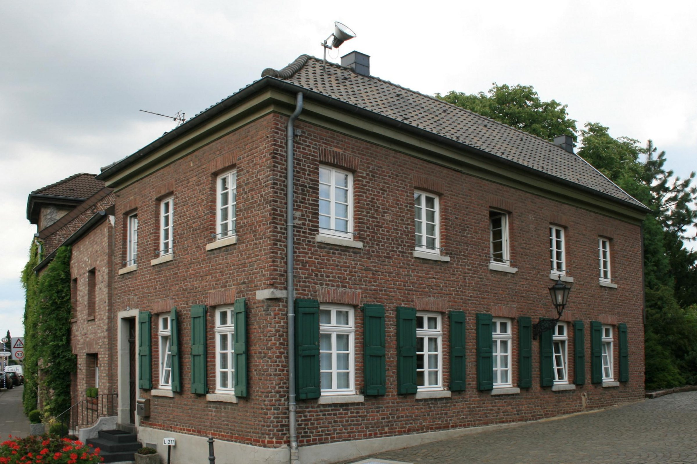 Cultural heritage monument No. B 020 in Mönchengladbach